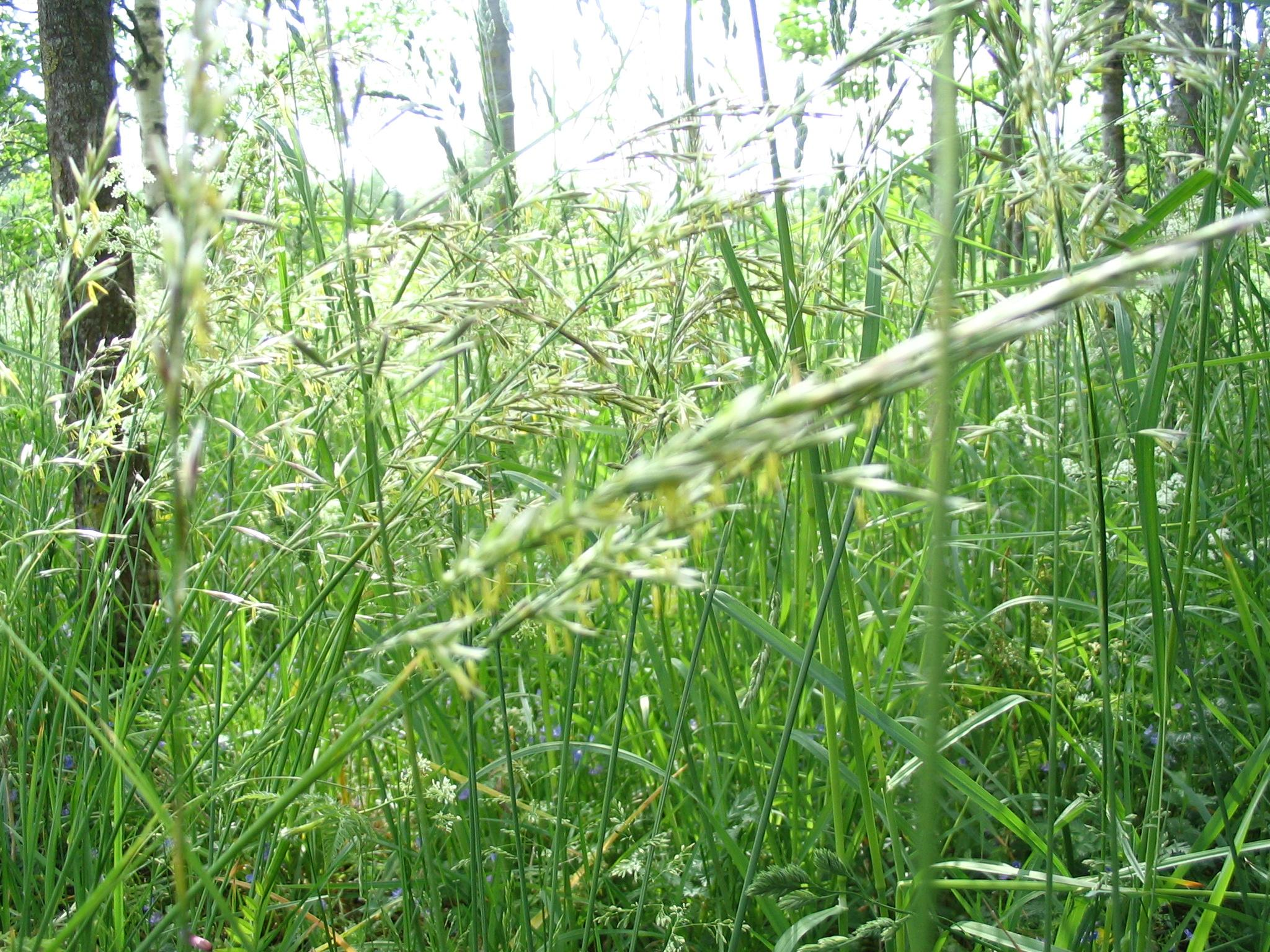 Helictotrichon pubescens meadow